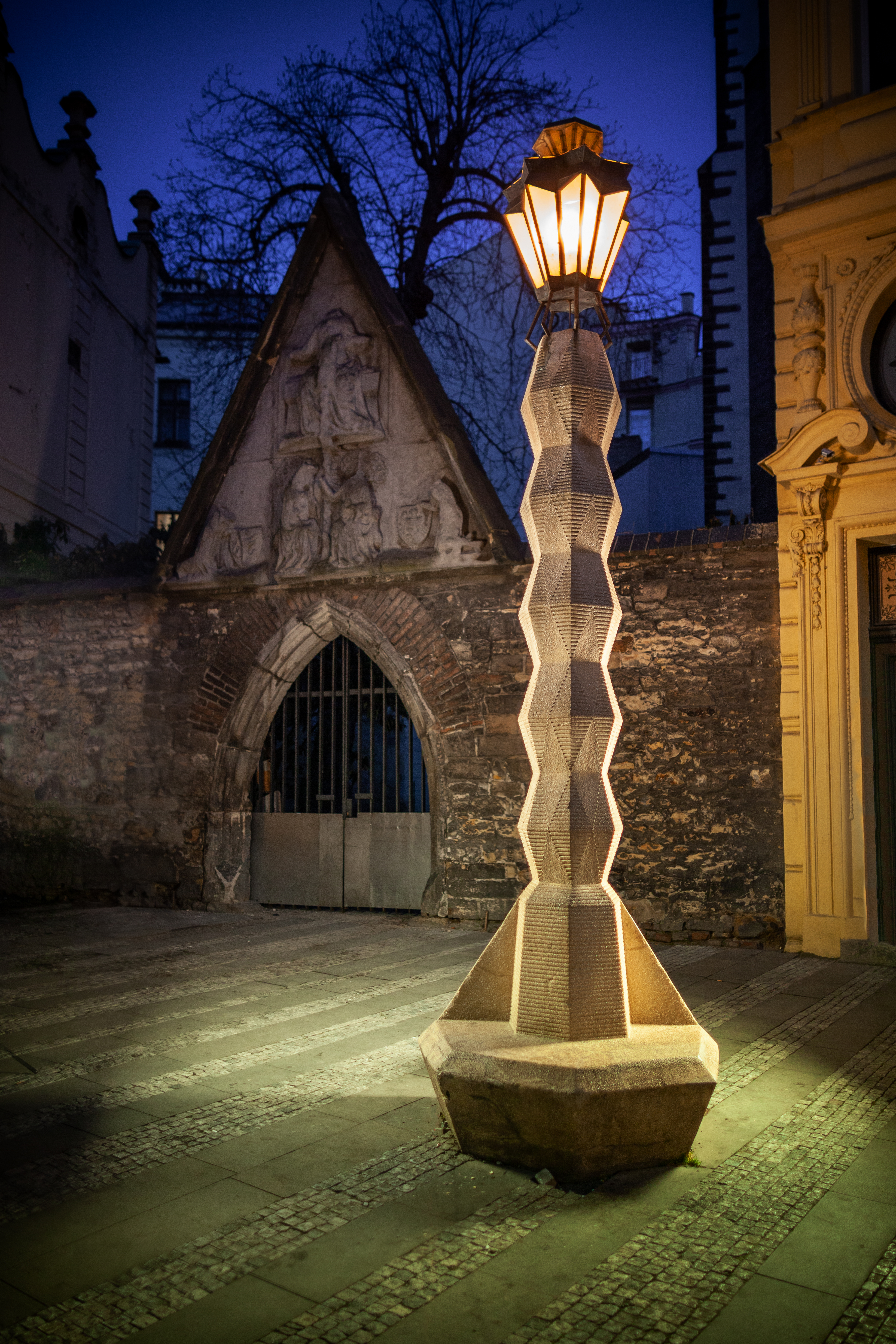 Cubist lamp by Emil Králíčk, Prague